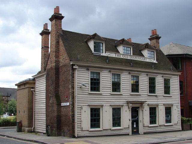 The Old Dispensary At the corner of Mantle Way and Romford Road lies this timber-clad Listed Building, built c1700.